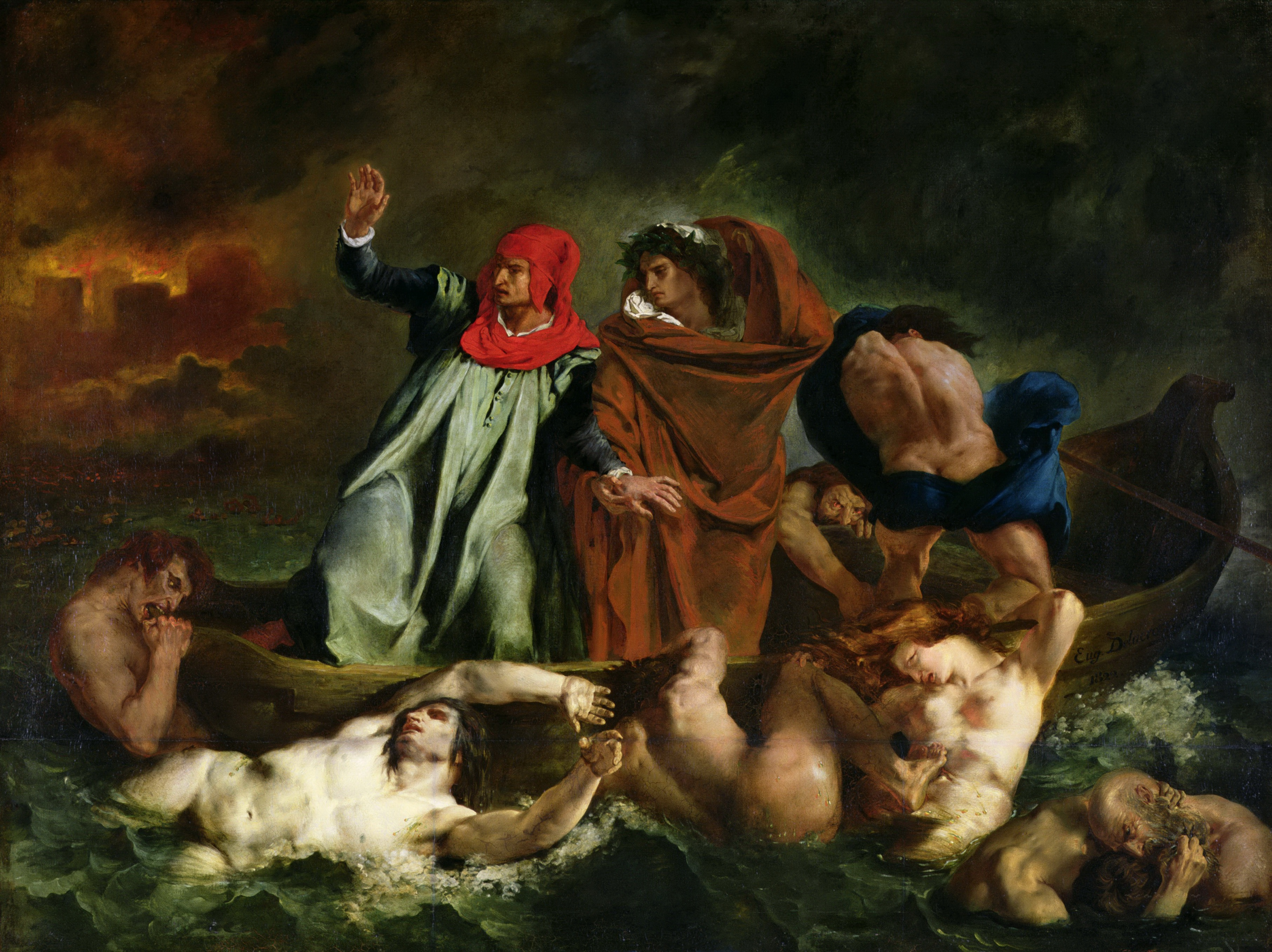 Dante and Virgil in Hell, Painting of Dante's »Divine Comedy, Inferno«, 8. Singing